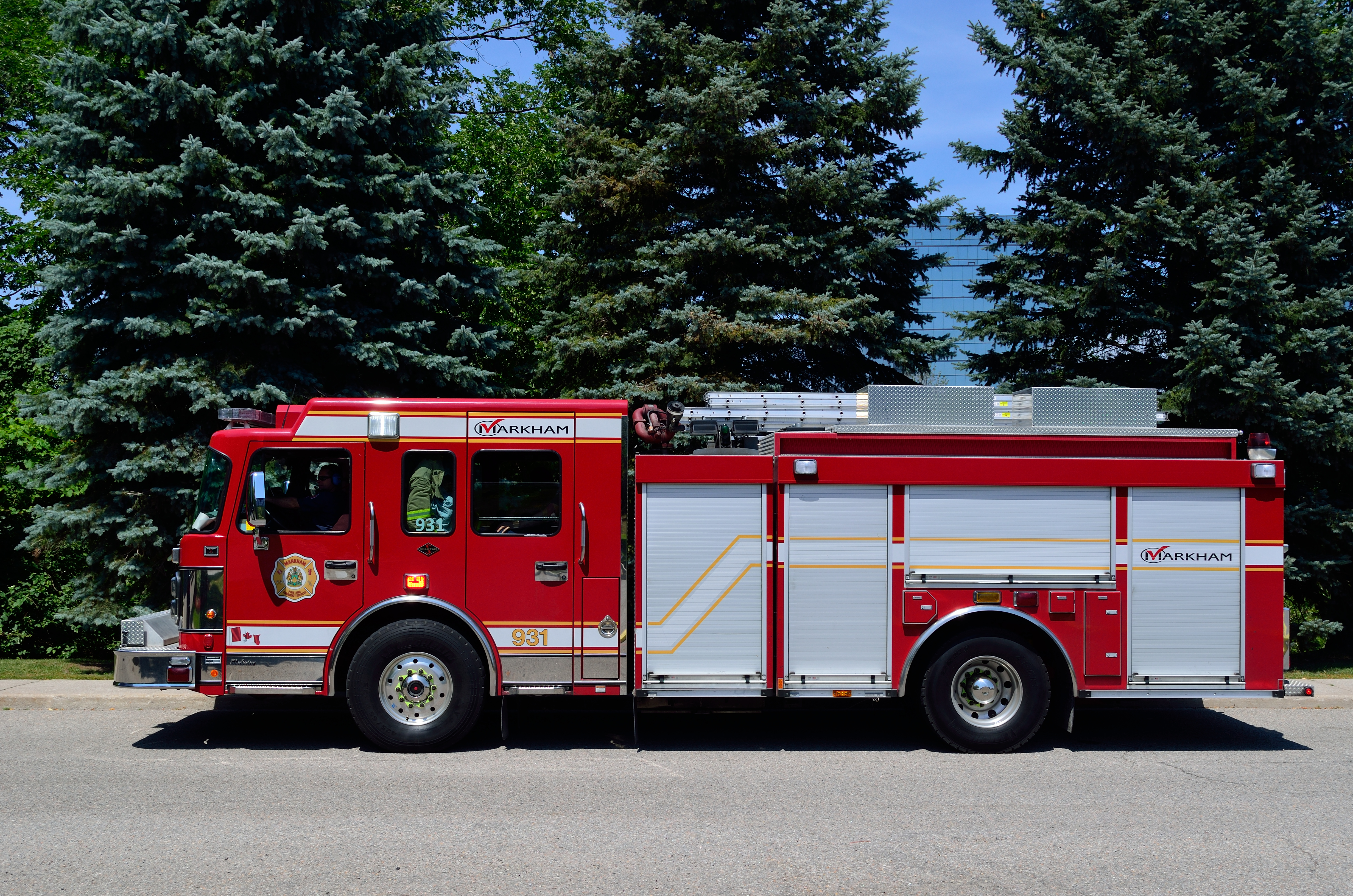 Markham Fire & Emergency Services - Fire Engine 931